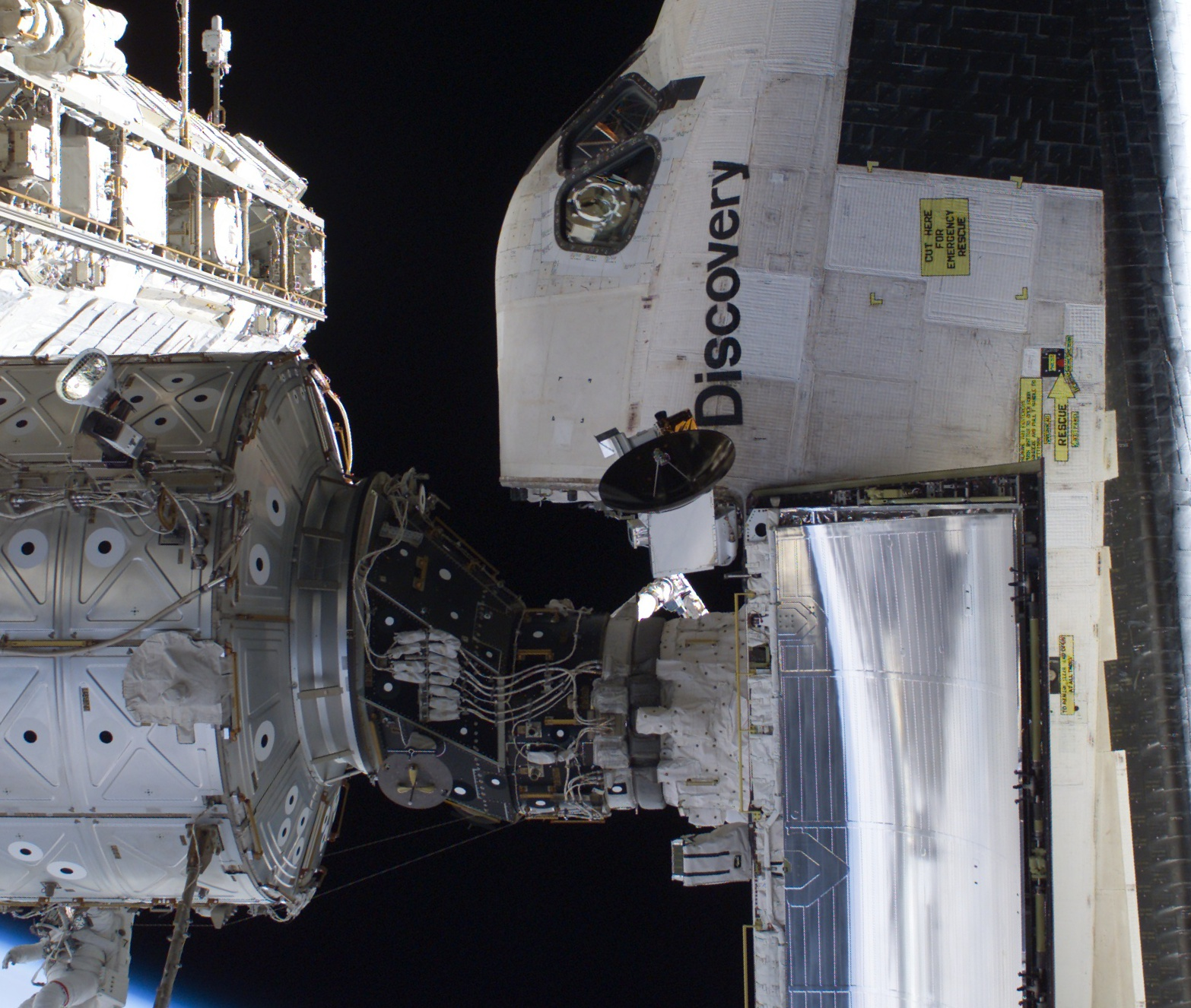 S114-E-6469 (3 August 2005) --- The Space Shuttle Discovery, docked to the Destiny laboratory of International Space Station, is featured in this image photographed by astronaut Stephen K. Robinson (out of frame), STS-114 mission specialist, during today’s spacewalk. Astronaut Soichi Noguchi, mission specialist representing Japan Aerospace Exploration Agency (JAXA), is visible at lower right on Destiny. The blackness of space and Earth’s horizon formed the backdrop for the image.